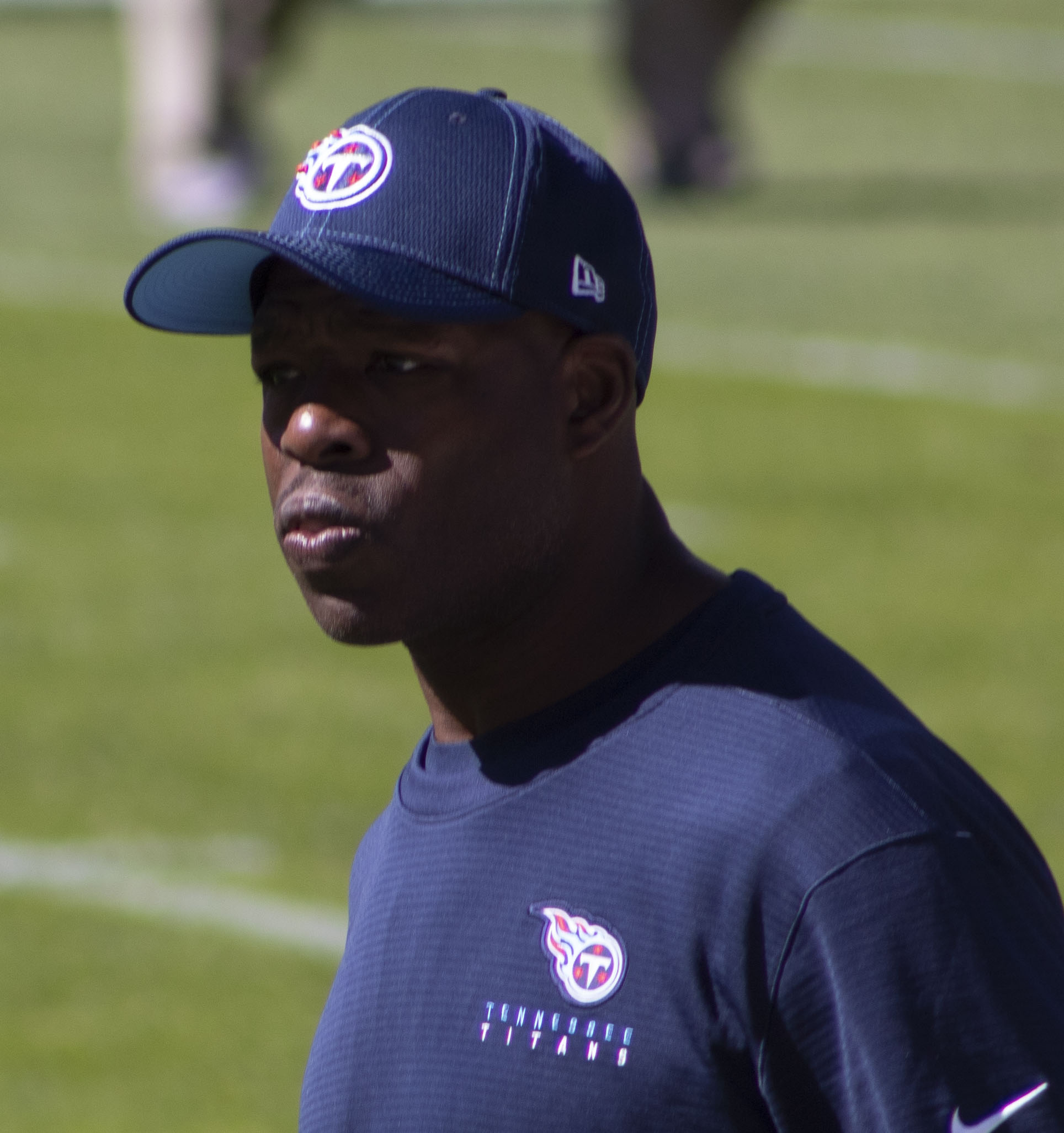 Dews with the Titans on October 13, 2019